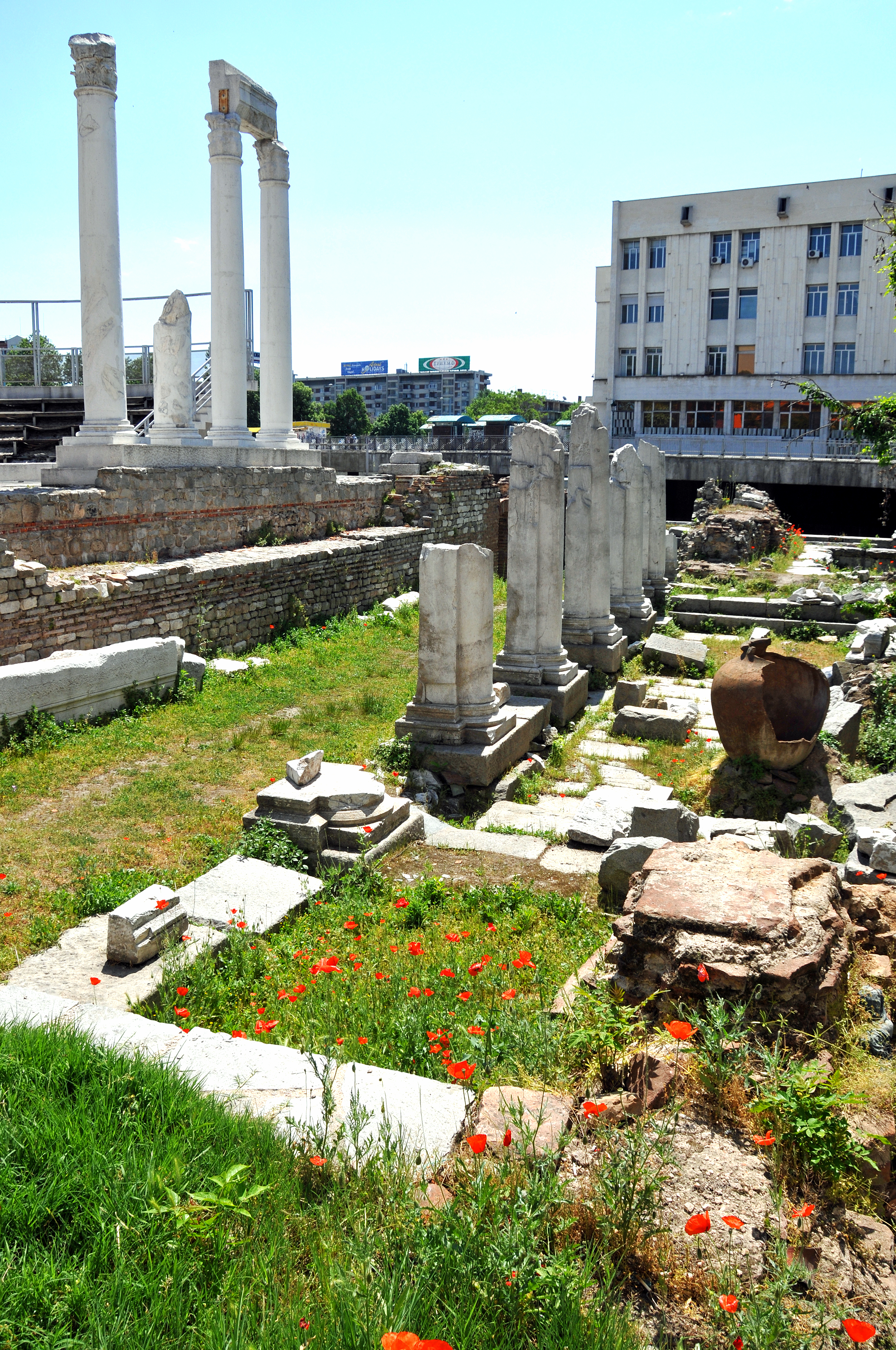 This Roman Odeon was built in the 2nd - 5th centuries AD and is the second (and smaller) antique theatre of Philipopolis with 350 seats. It was initially built as a bulevterion (edifice of the city council) and was later reconstructed as a theatre. The Odeon was attached to the forum complex. The forum was built in the end of the 1st century AD, when Philipopolis obtained a new city planning scheme and a center (forum) according to a Roman model. It covers an area of 11 hectares and used to be covered with shops of the similar sizes on three of its sides and public buildings on the north side.